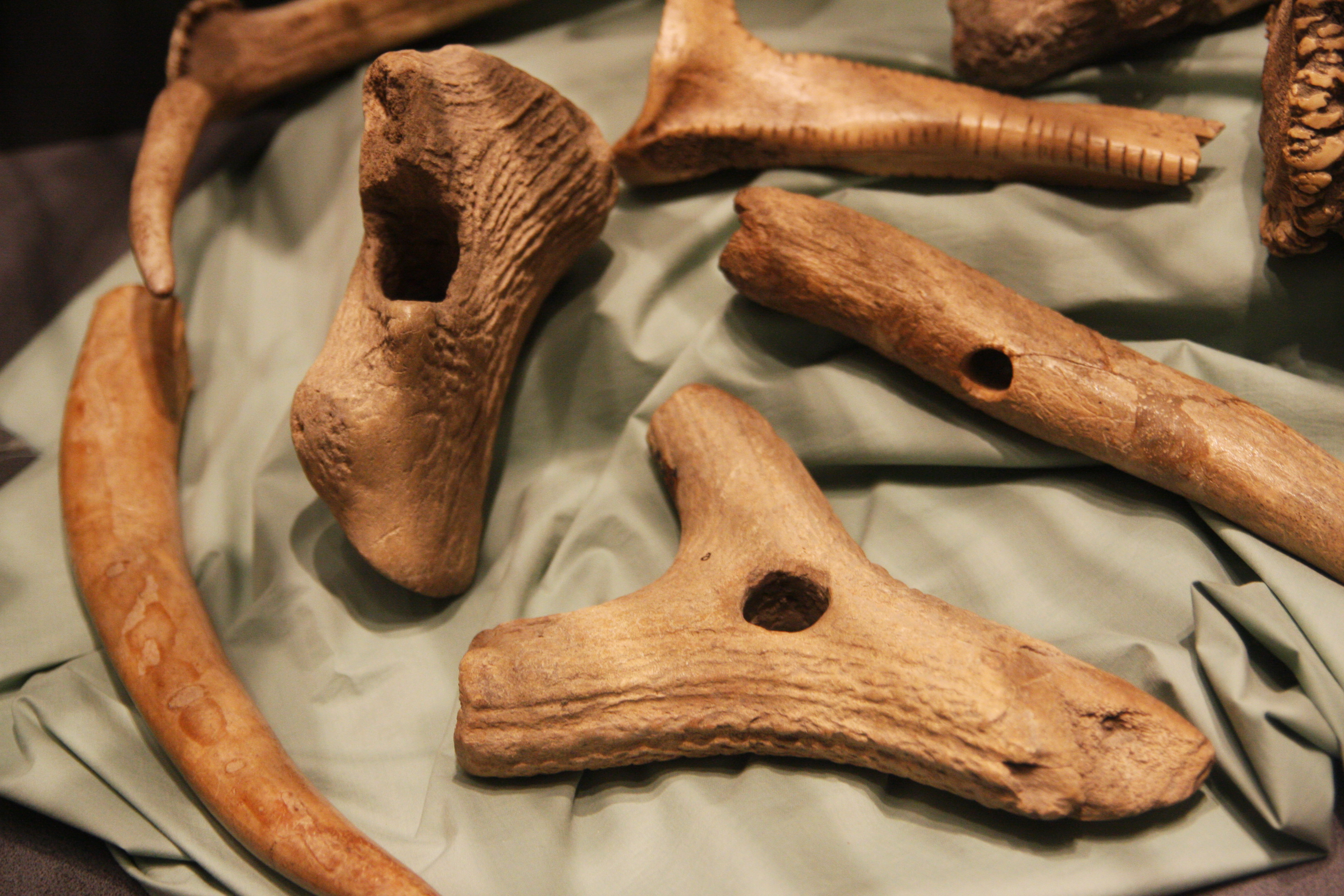 Plough Horn used in Cucuteni agriculture